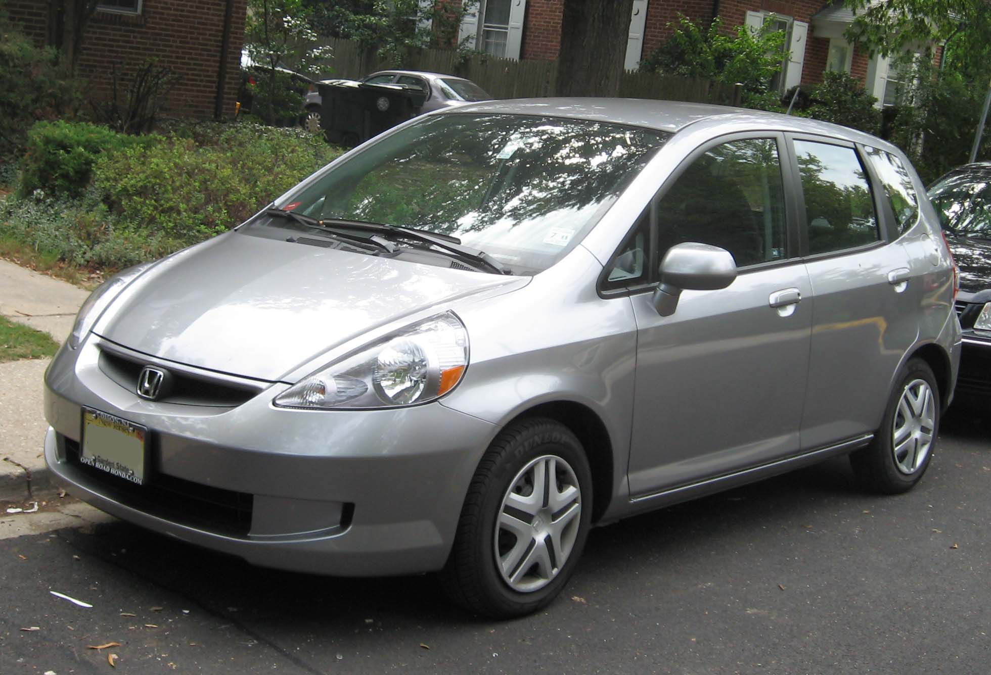 2007-2008 Honda Fit photographed in College Park, Maryland, USA.